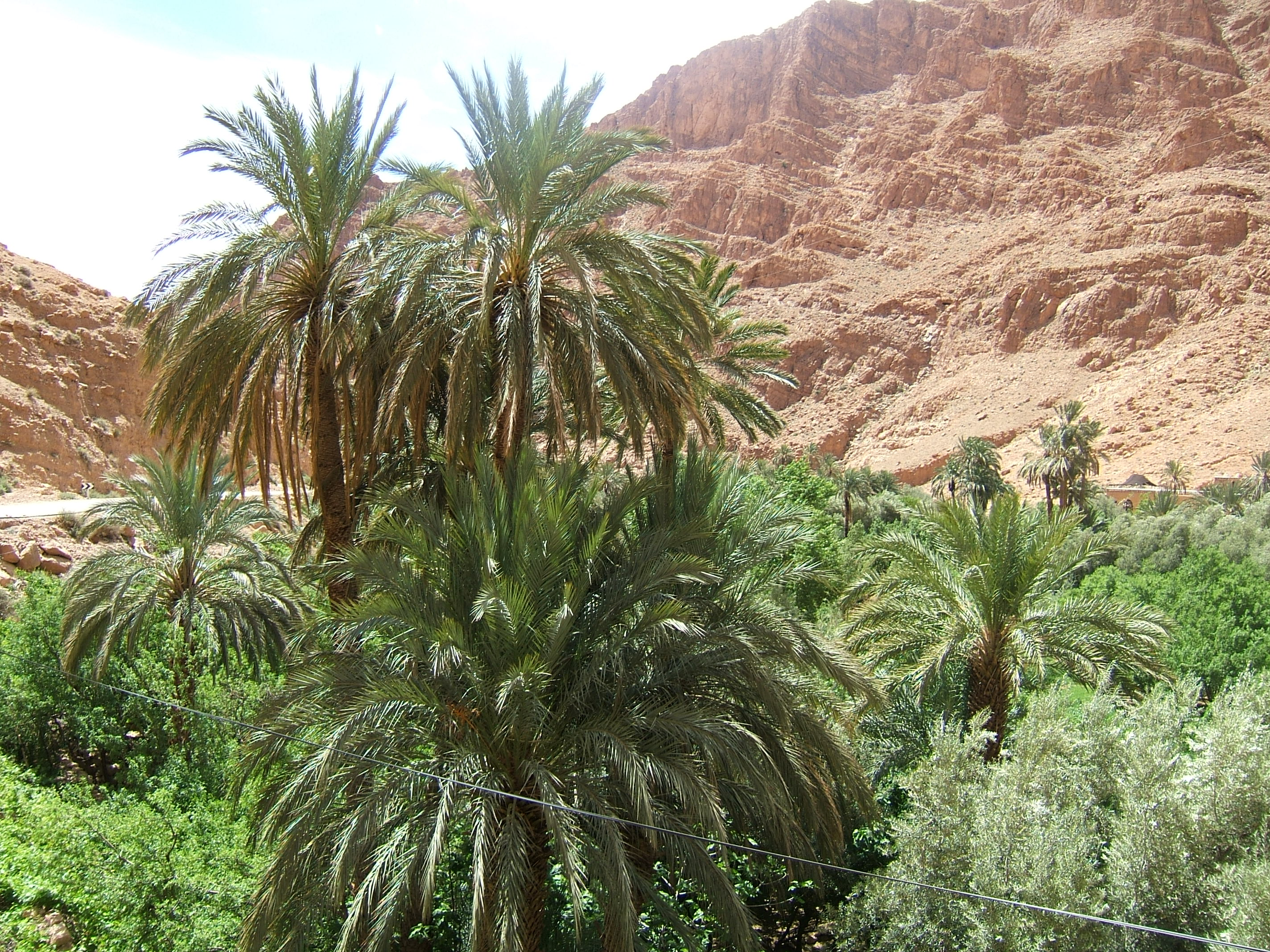 Phoenix dactylifera orchard, Vallée du Dadès, near Boumalne, Morocco.